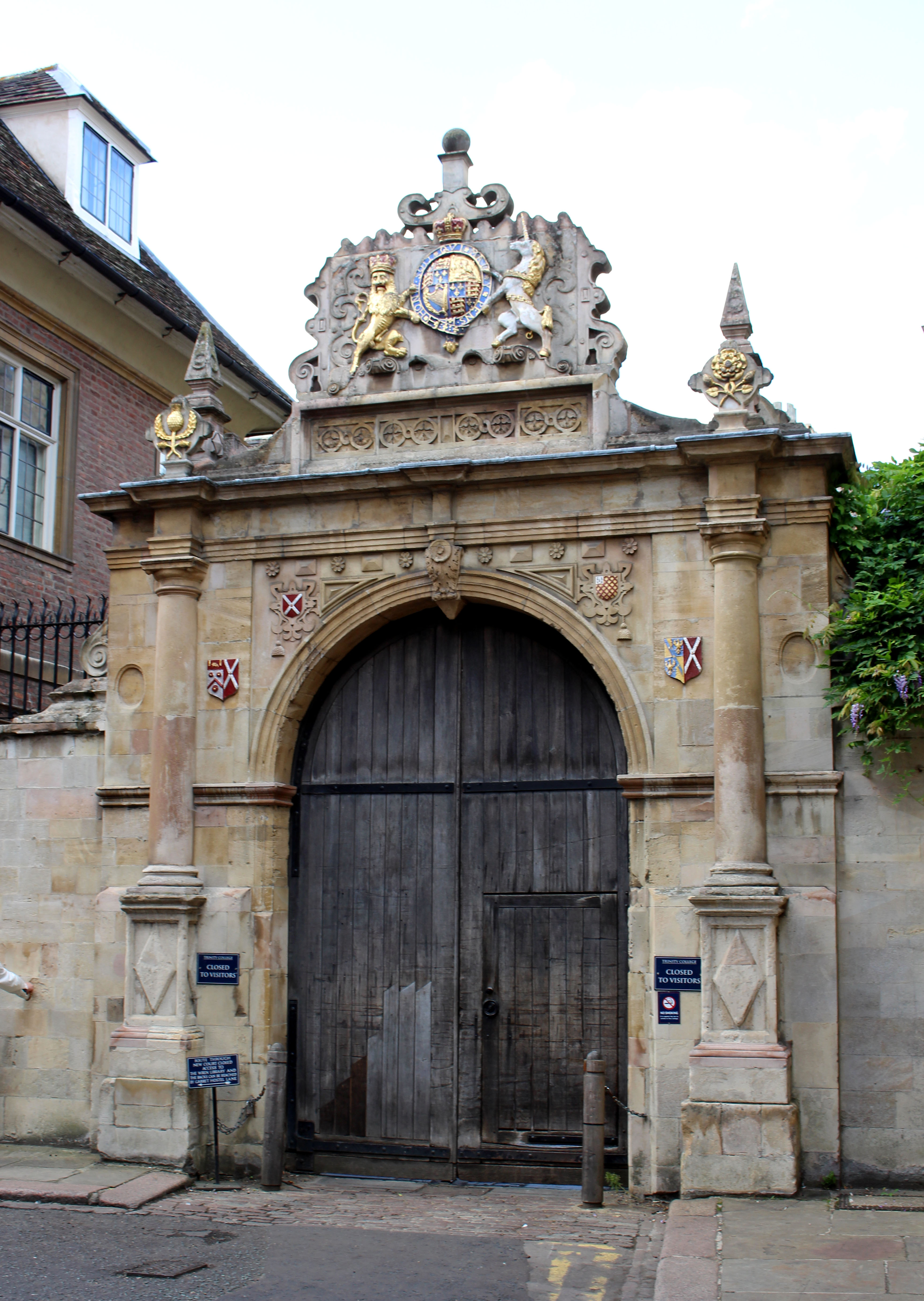 Trinity College, Nevile's Gate to Trinity Lane, circa 1610. Built by Thomas Nevile (died 1615), Dean of Peterborough (1591–1597), Dean of Canterbury (1597–1615), Master of Magdalene College, Cambridge (1582–1593) and Master of Trinity College, Cambridge (1593–1615). Arms of Nevile: Gules, a saltire argent; Or fretty gules, on a canton per pale of the first and argent a galley sable (Nevell, Lords Latymer); Arms of King James I; Arms of Trinity College, Cambridge, impaling Nevile; arms of Magdalene College, Cambridge, impaling Nevile.